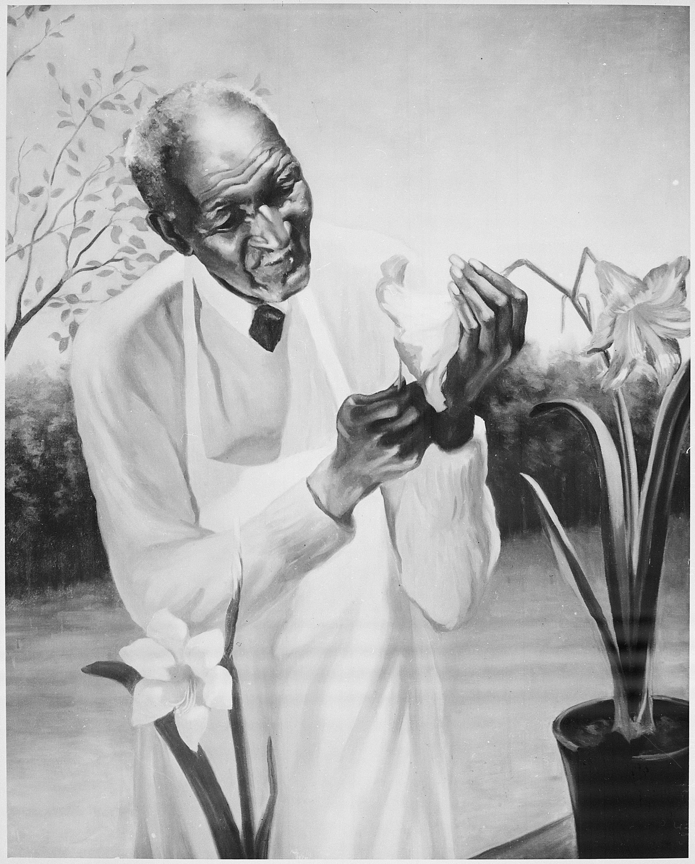 General notes: Painting